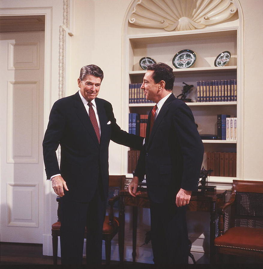 President Ronald Reagan, in the Oval Office, speaking with republican senator Arlen Specter of Pennsylvania